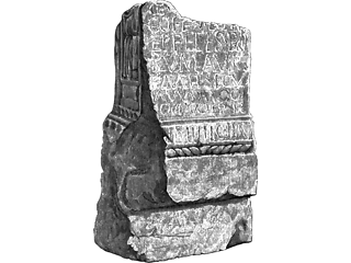 Fragmentary roman dedication, probably Altar for Minerva and Hercules, found 1852 on the north bank of the River Derwent in Workington/Burrow Walls. Now at Lowther Castle.